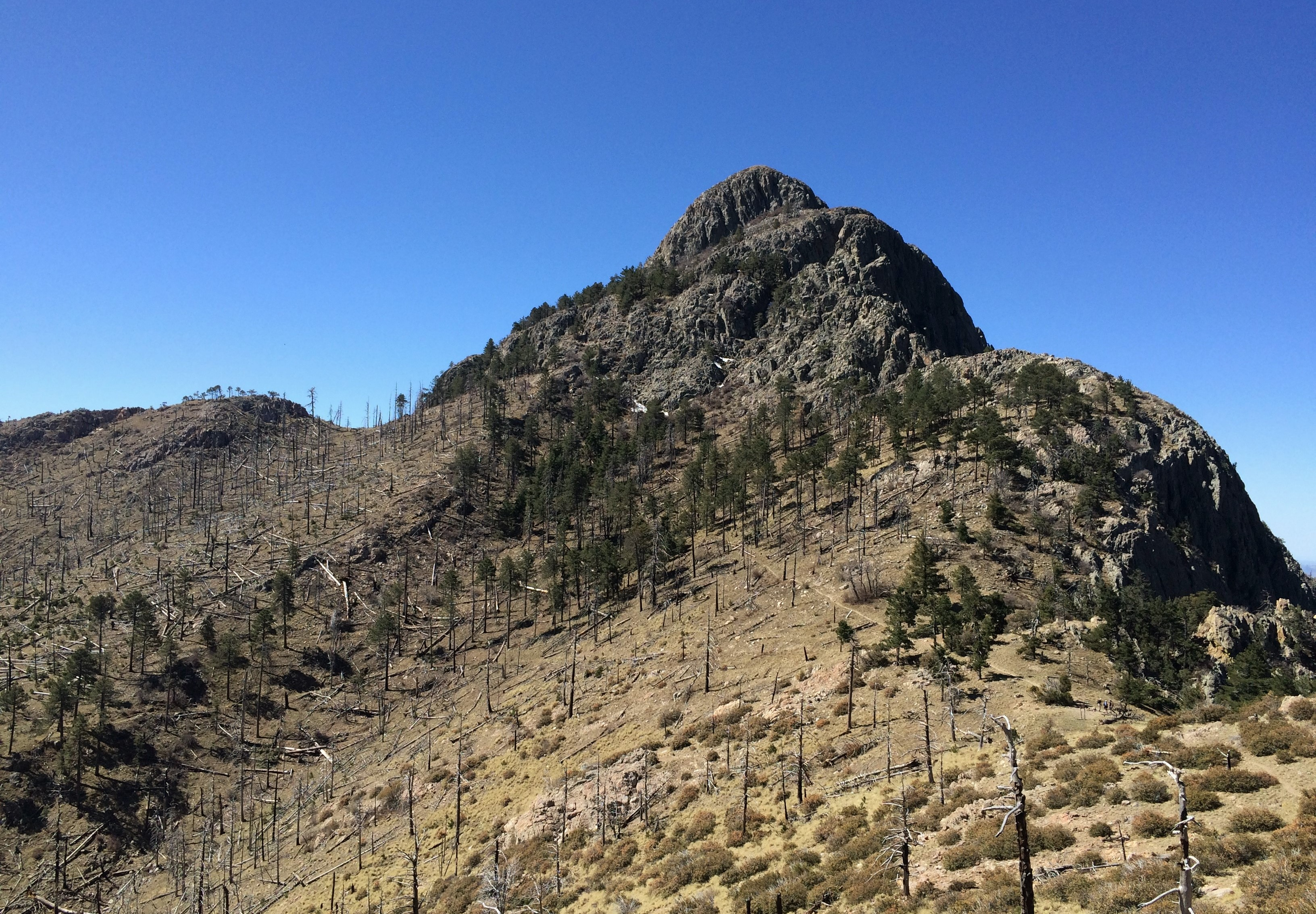 A view from directly below the summit of Wrightson